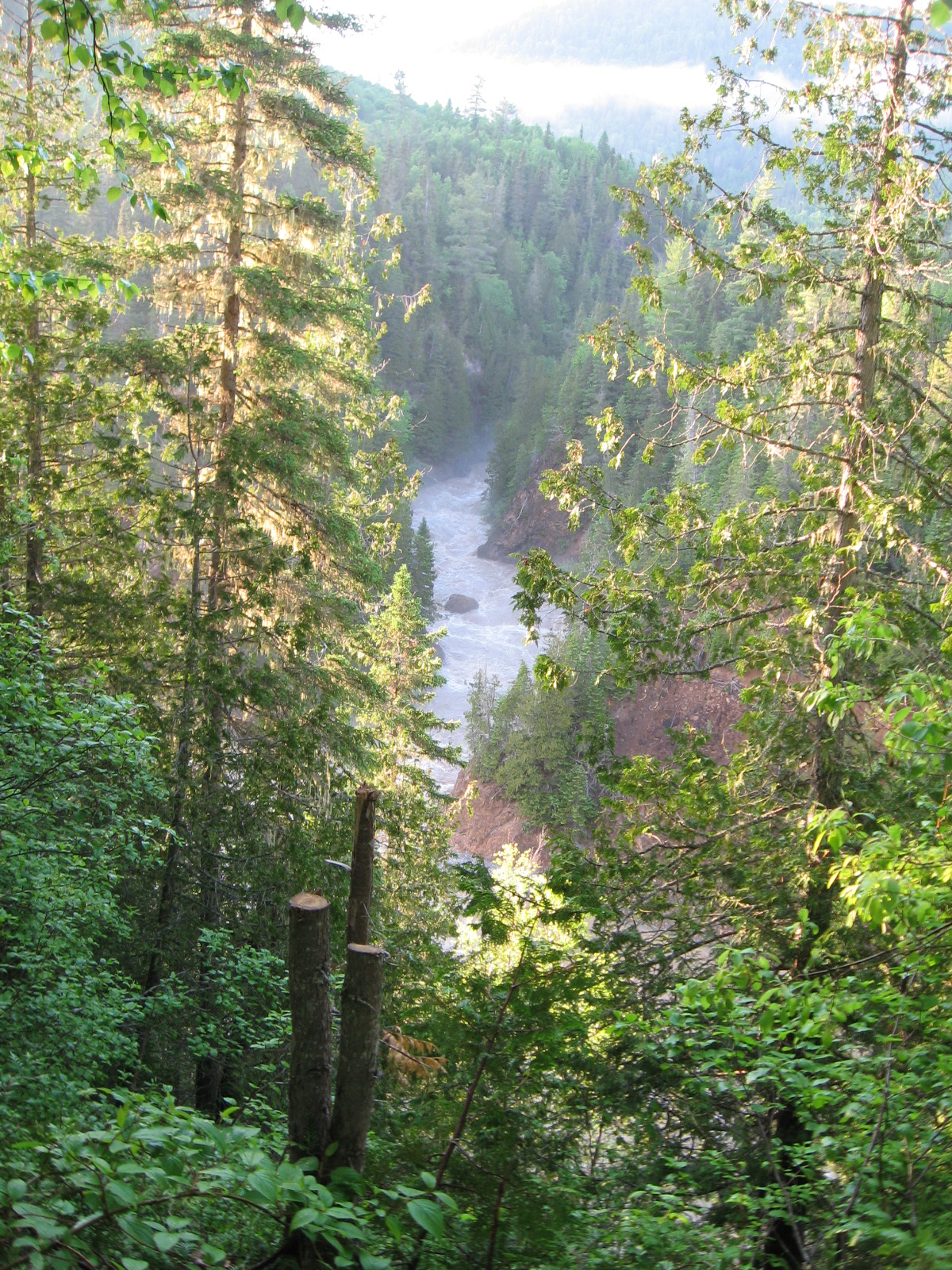 Almost each year for the past 10 years, I went to a salon fishing trip with my father on the 3 Pabos Rivers near Chandler in gaspesia, Québec. I took a lot of photos of the 3 rivers. I took the pictures myself.